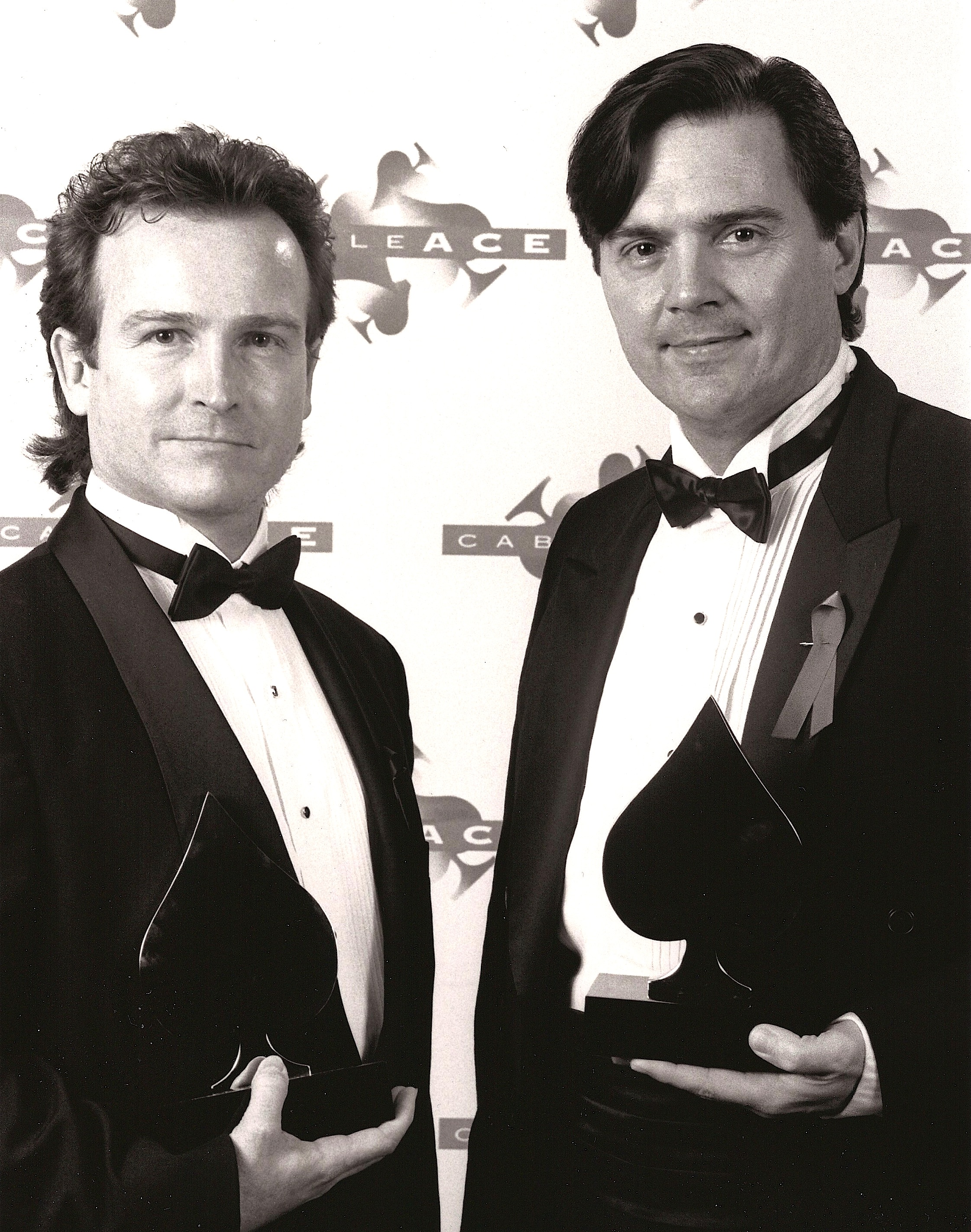 Benny Hester receiving Cable Ace Award for "I Can Dream"